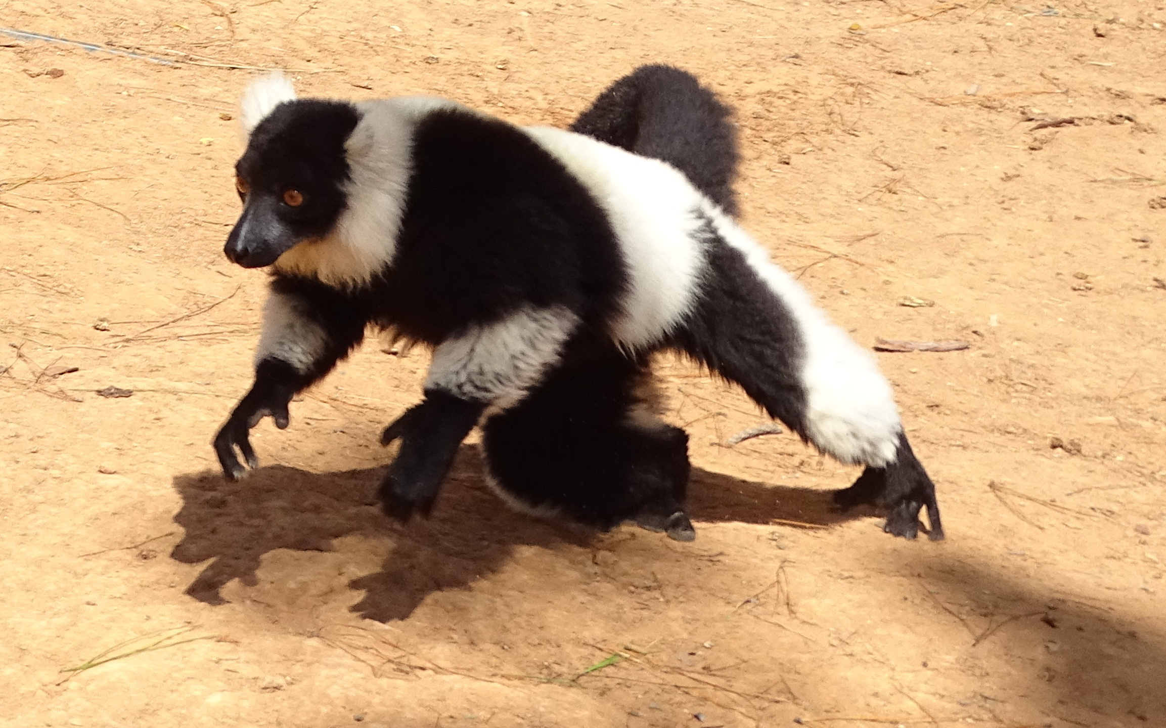 Black and White Ruffed Lemur at Lemurs' Park